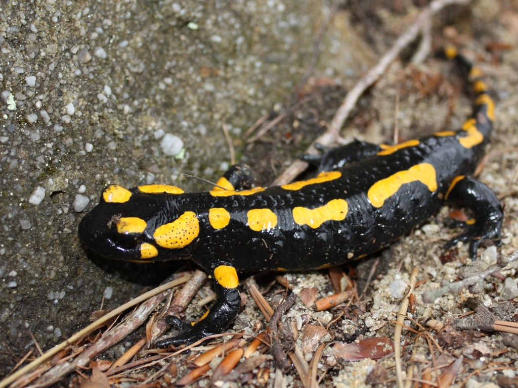 Salamander Salamandra salamandra